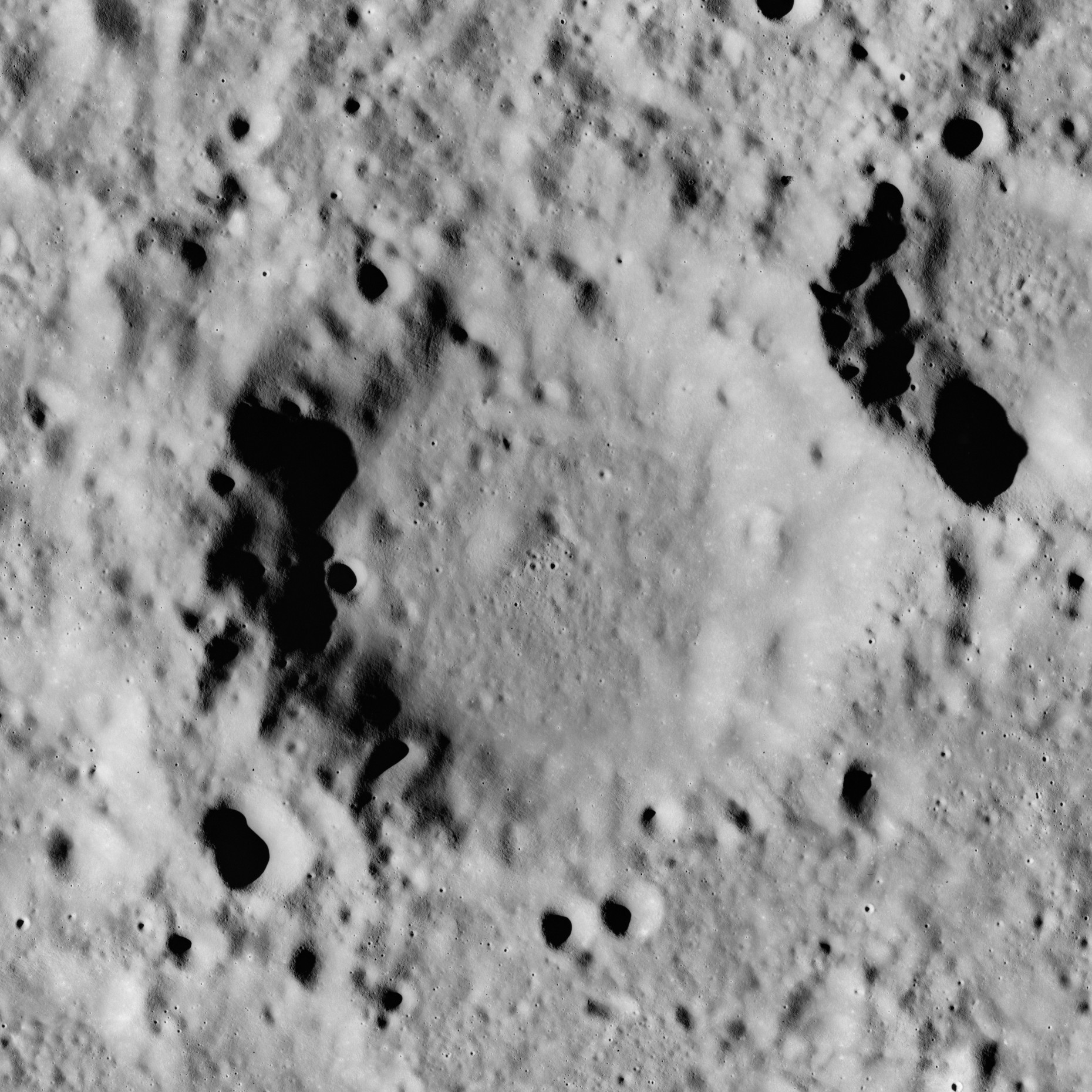 Perel'man crater on the far side of the moon. Spacecraft altitude: 116 km. Sun elevation: 14 deg.